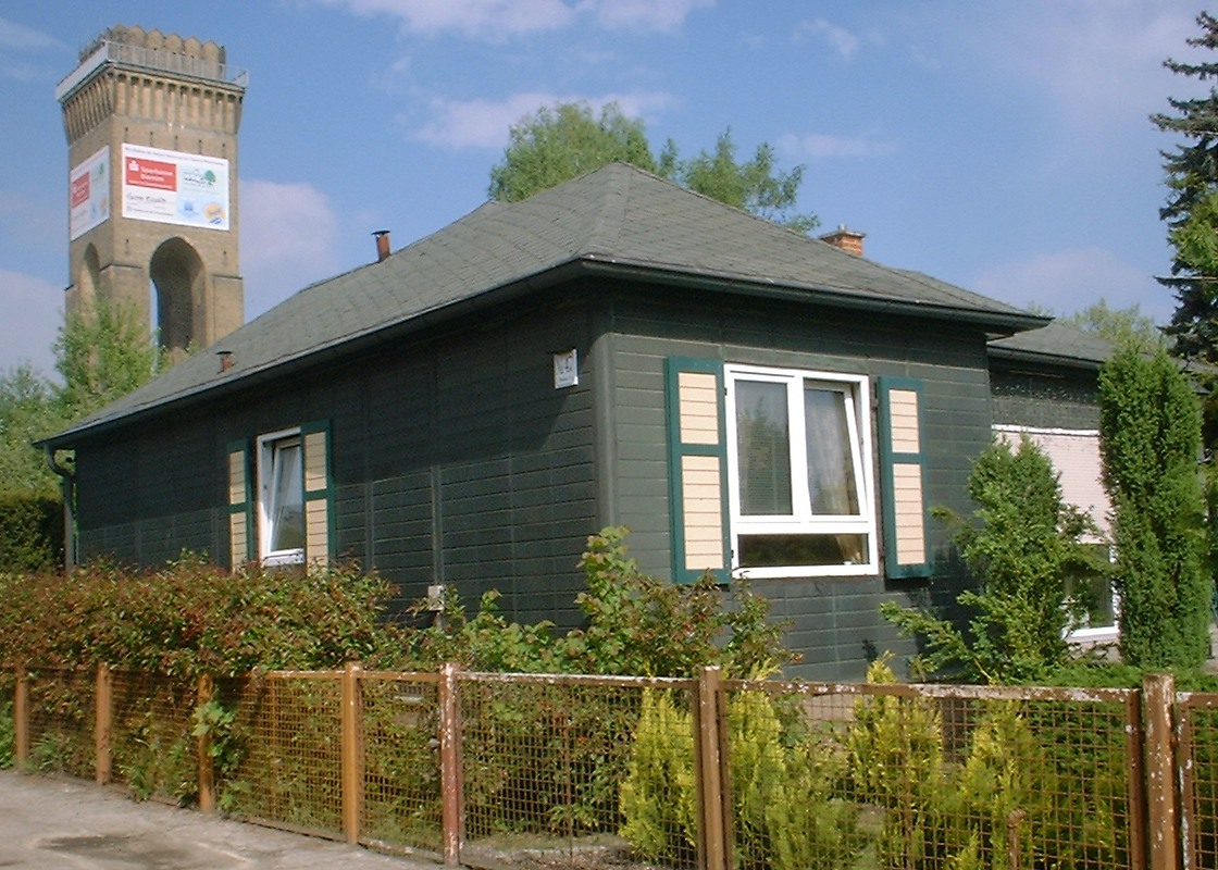 Copper house and water tower in Eberswalde, Germany